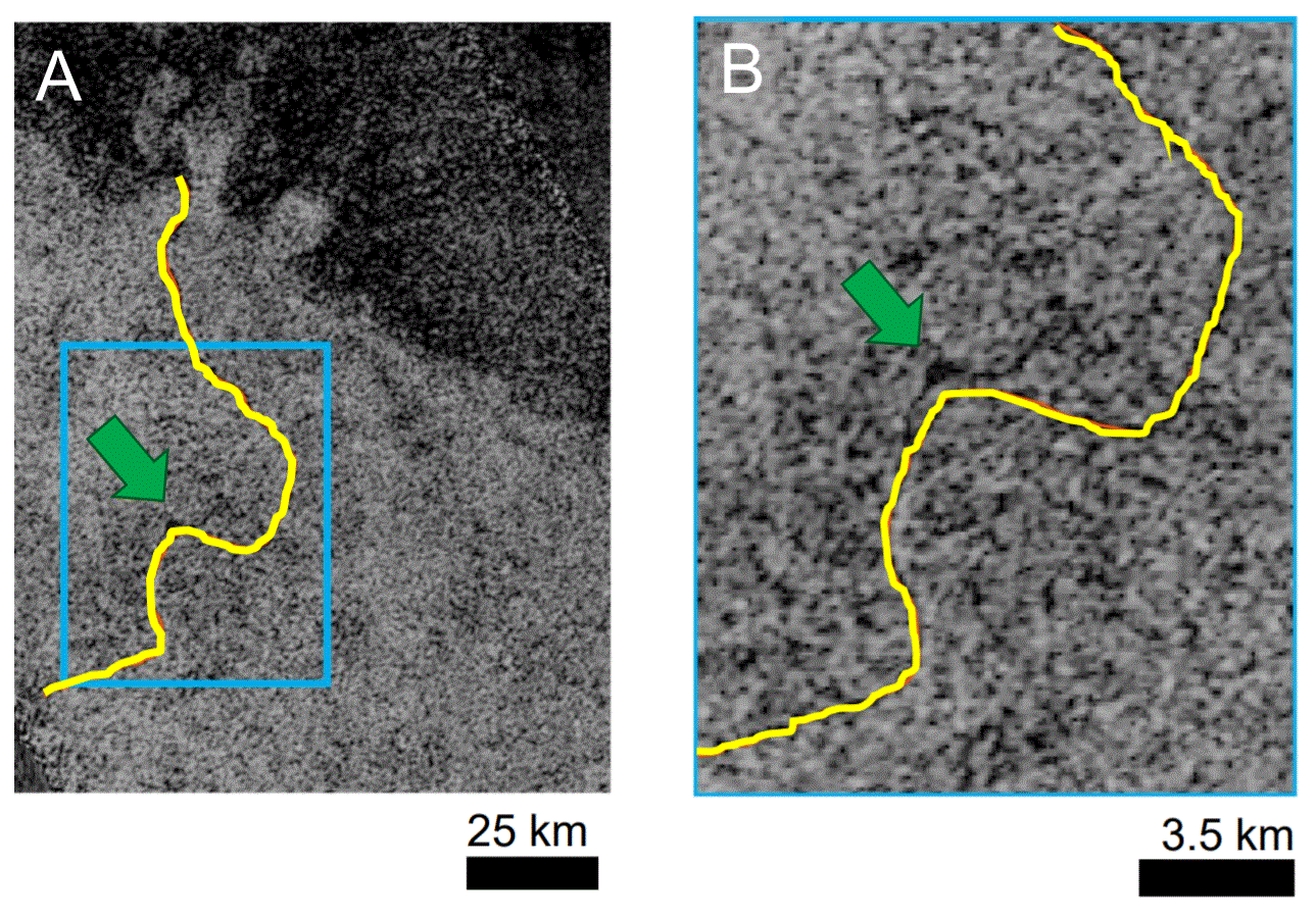 Saraswati Flumen is demarcated by the yellow line. The green arrow points to the proposed oxbow lake as viewed by Cassini RADAR.